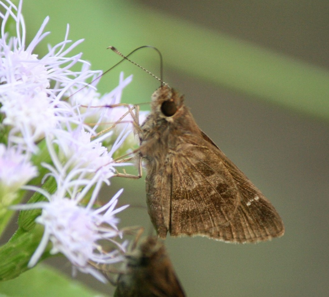 Fawn-spotted Skipper (Cymaenes trebius). Species of insect.